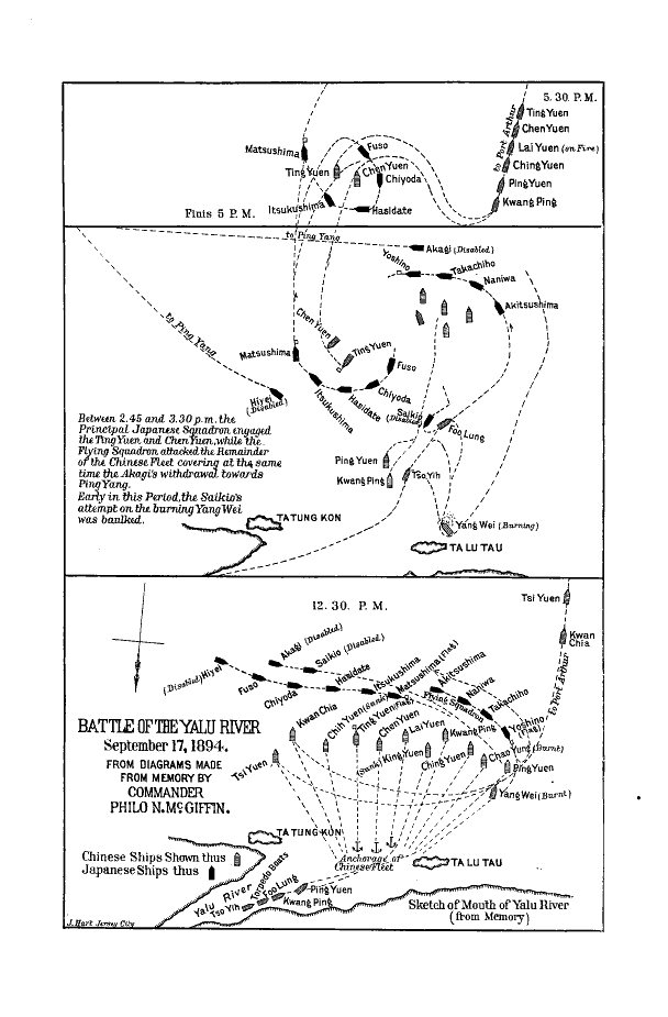 Sketch map of Battle fo the Yalu River, 17th September 1895